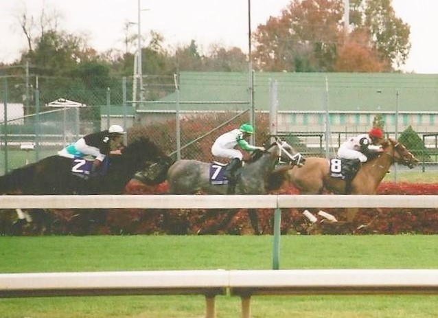 Ouija Board in the 2006 Breeders' Cup Filly and Mare Turf, saddlecloth #2, black silks of Lord Derby. Currently in third, she has just gotten into the clear and now has clear run at the leaders. My Typhoon is #8 on the lead